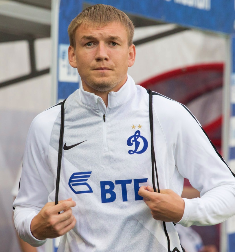 Yevgeni Lutsenko